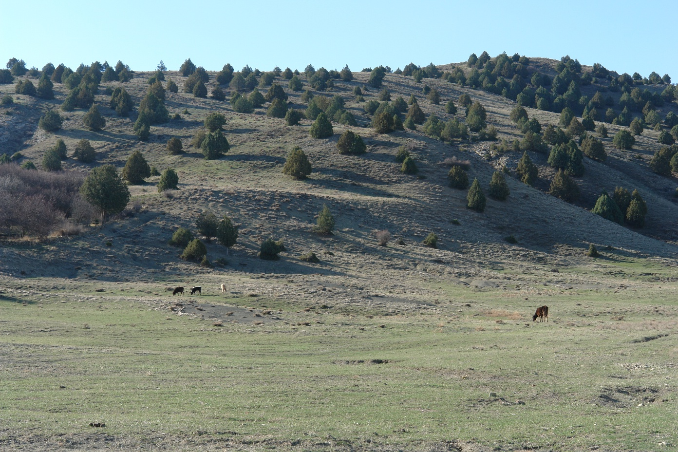 a tiny lake in gorge, Nohur area, Turkmenistan.